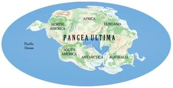 this picture shows the formation of pangaea ultima 250 million years to come